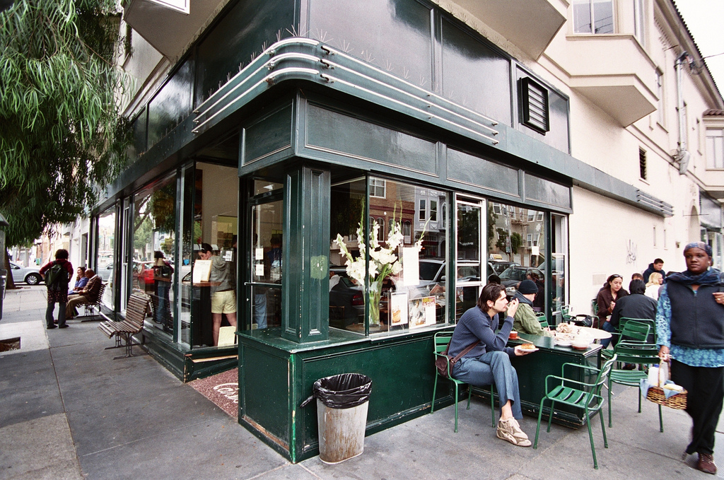 Here's the Tartine Bakery on 18th and Guerrero in la mission, SF